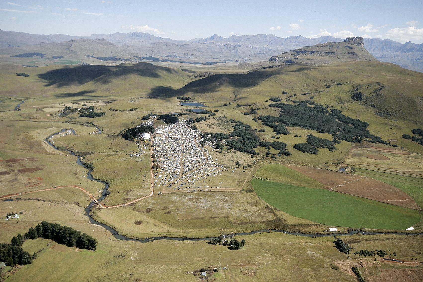 Splashy Fen 2009 Music Festival